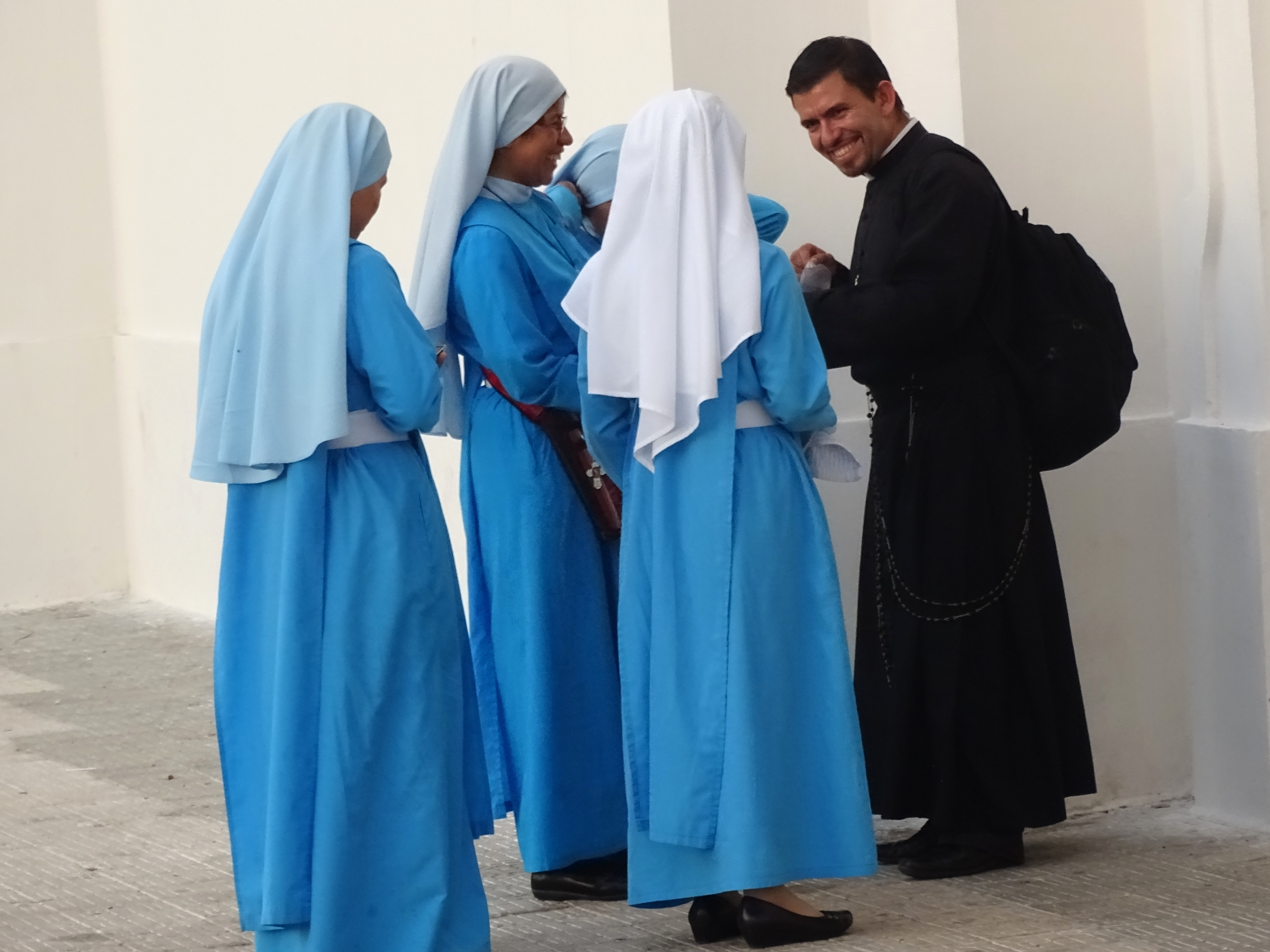 Nuns with Priest on Cathedral Steps - Leon - Nicaragua